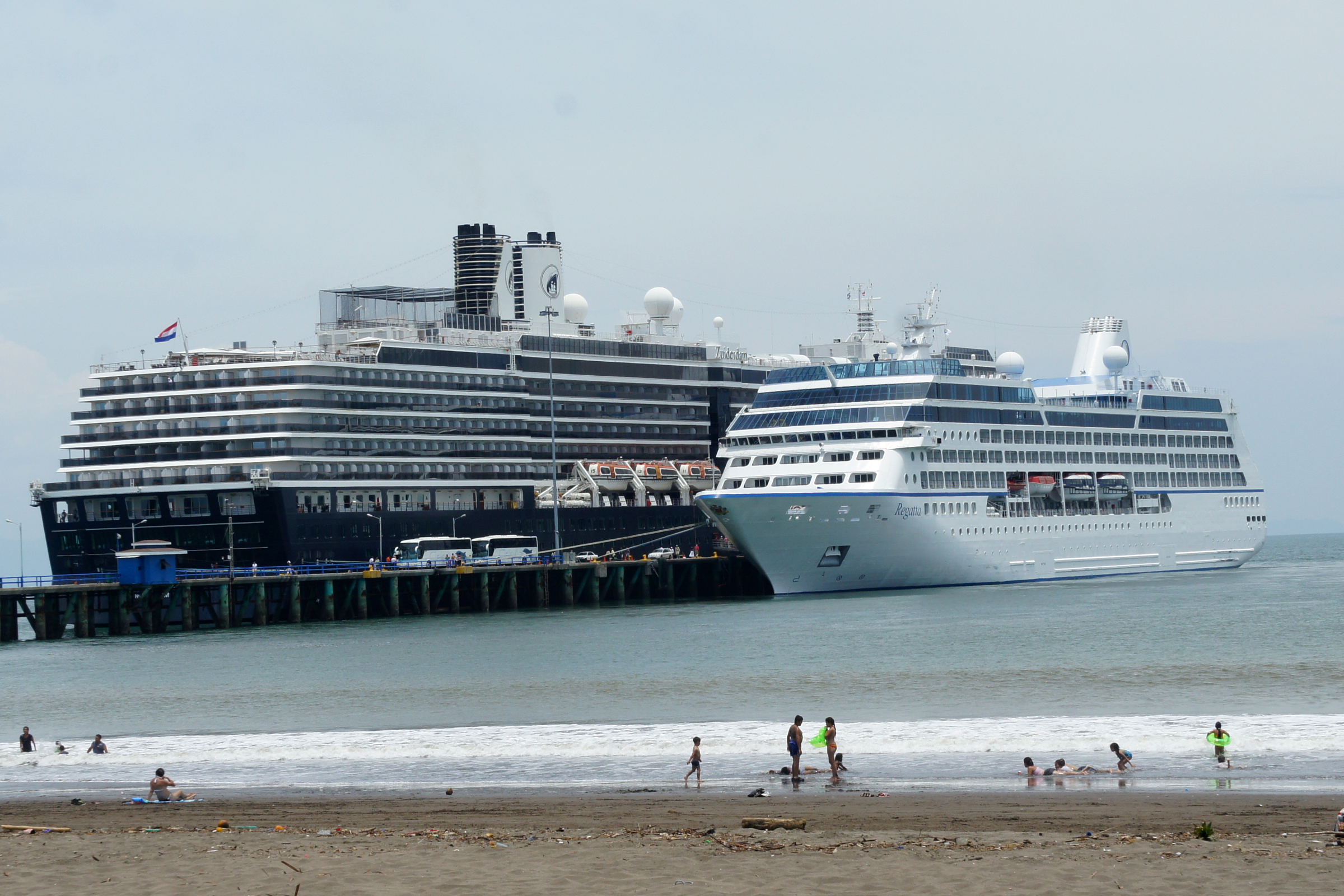 Cruise ships on call at Puntarenas Port, Costa Rica